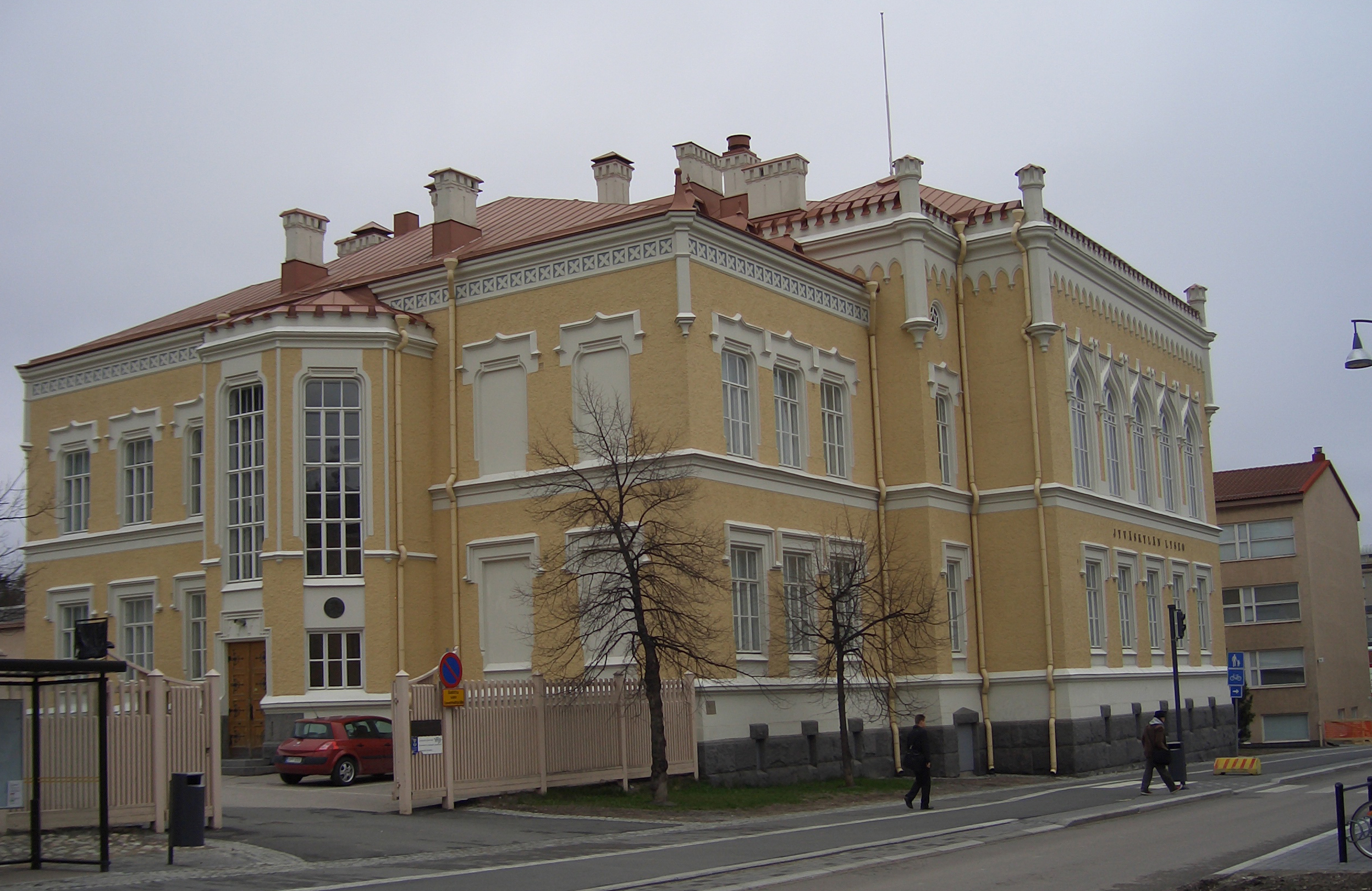 Jyväskylä Lyseo upper secondary school from Yliopistonkatu